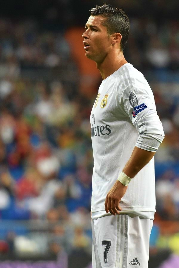 Cristiano Ronaldo